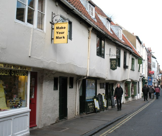 Lady Row, Goodramgate One of the most historic series of buildings in York, Lady Row is the oldest datable timber framed range in the city. Originally built as a row of 11 cottages in 1316 on part of the churchyard of Holy Trinity, which is now hidden behind Lady Row. Now mostly small specialist shops facing on to Goodramgate and opposite a rather horrible 1960's range of shops.